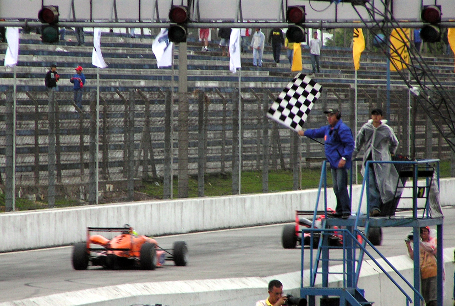 Chequered Flag: Formula 3 Latin-America